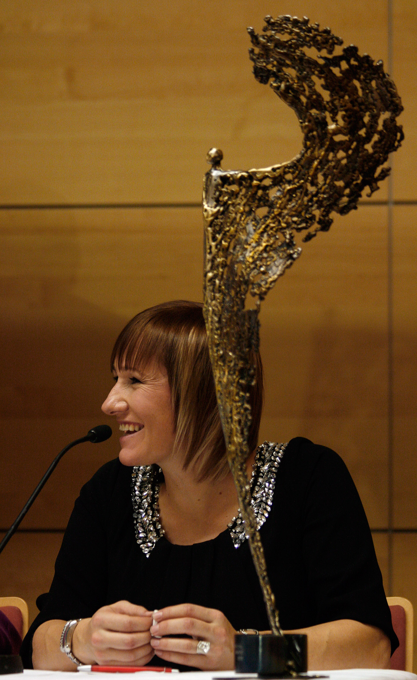 Renate Götschl at the award show for the Austrian Sportspersonalities of the year 2009.